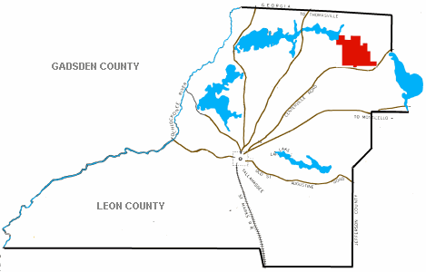 created by the user with Paintshop Pro